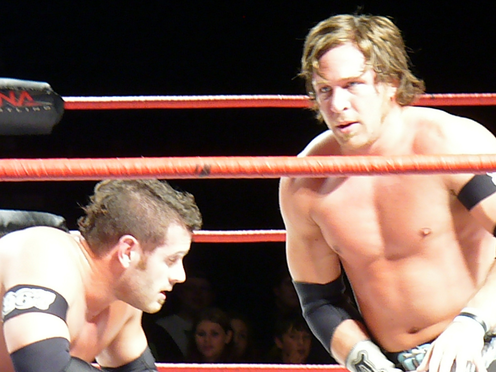 Alex Shelley and Chris Sabin